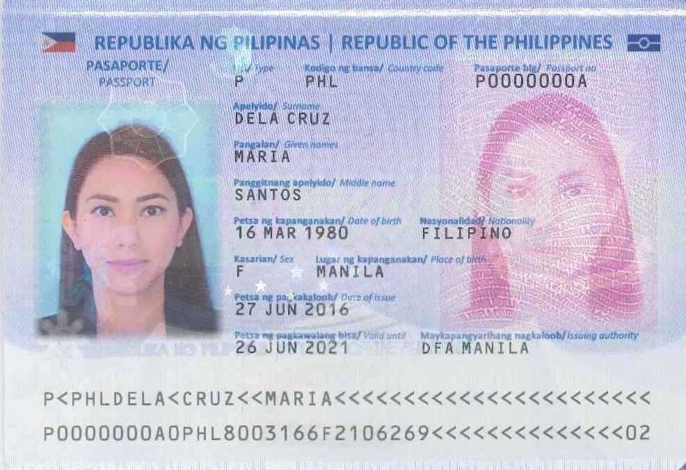 The data page of the new Philippine passport released on july20 2020.